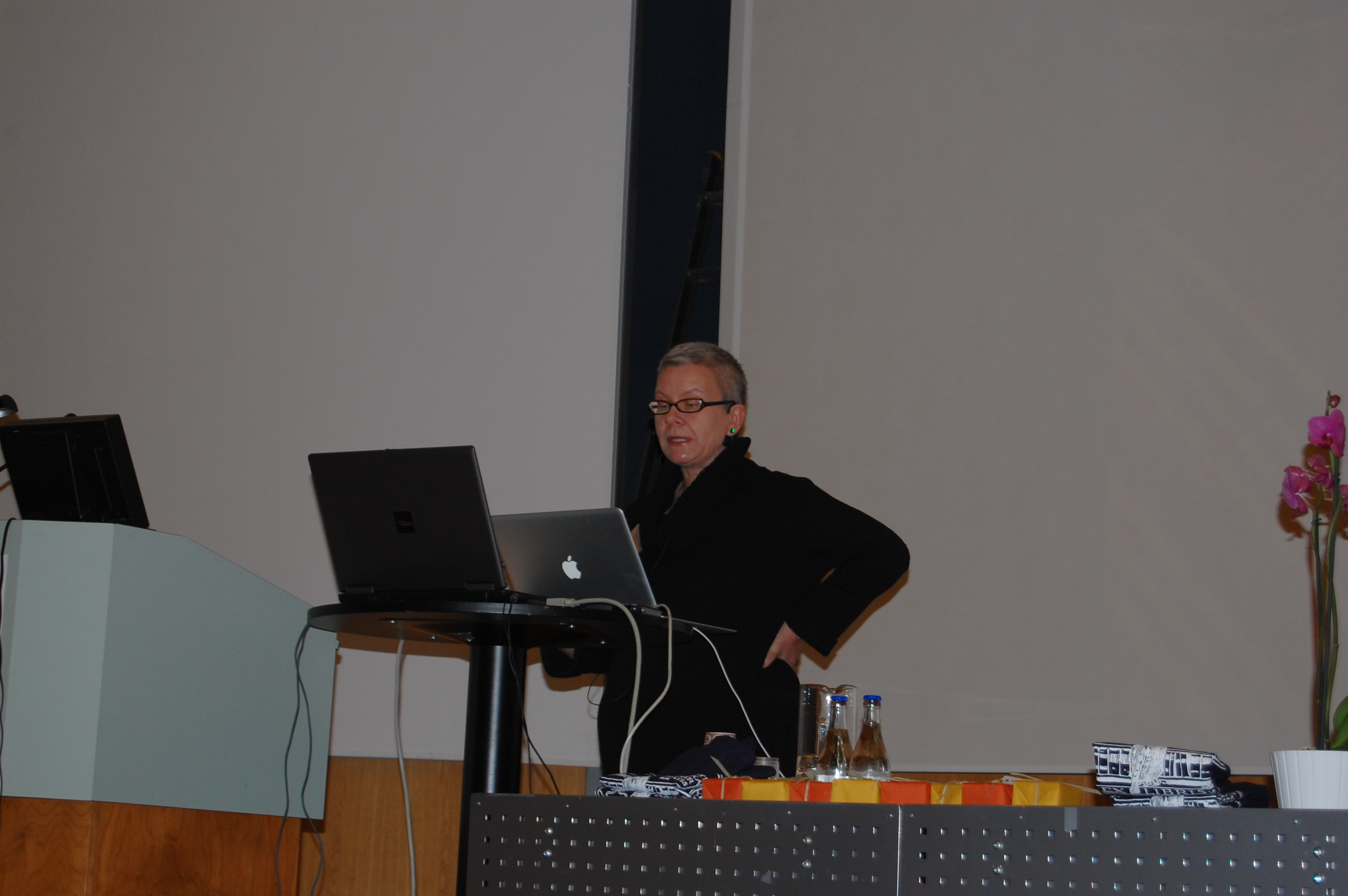 Image from Wikipedia Academy Stockholm 2009 at Stockholms University Library.